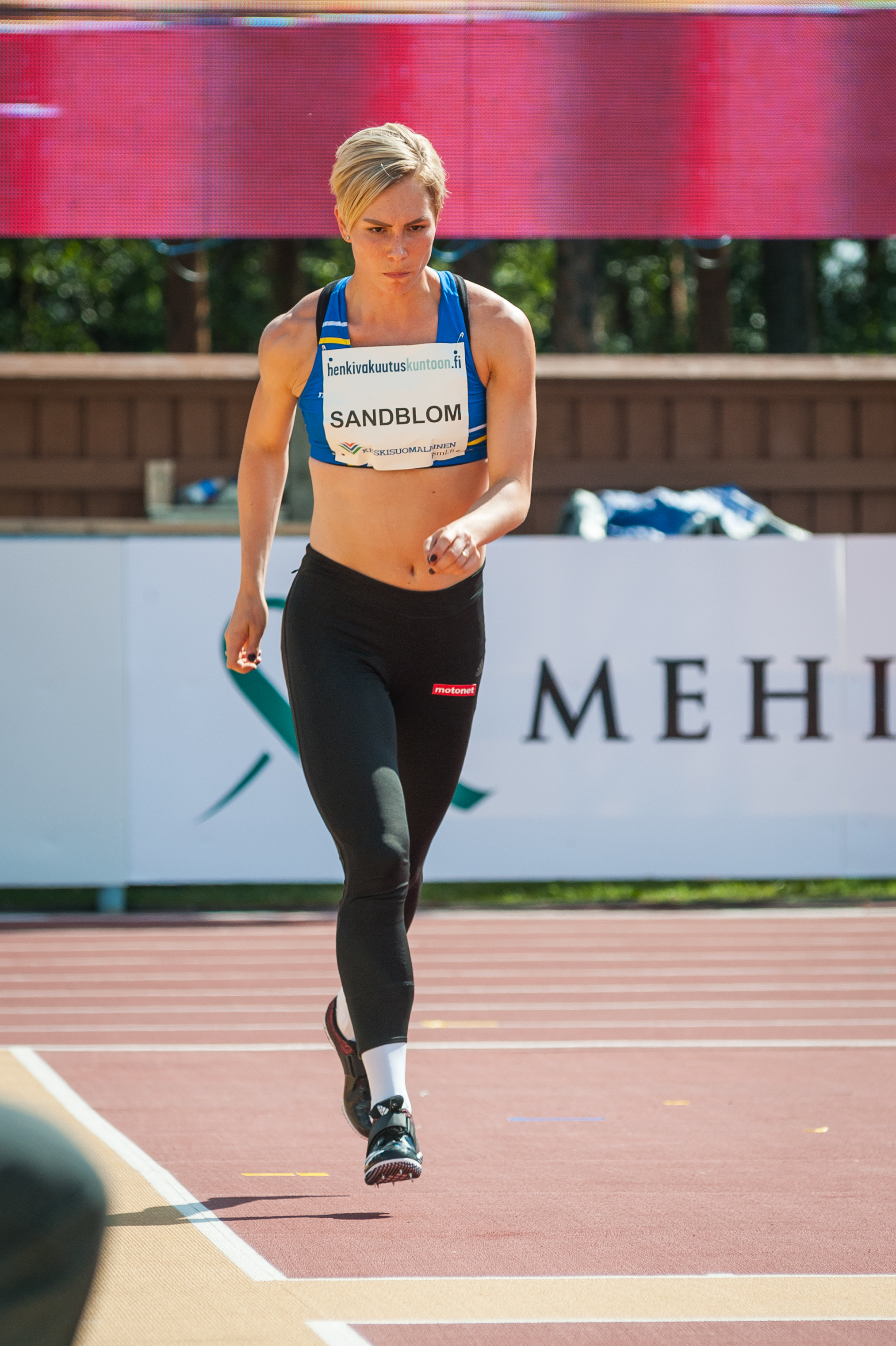 Women's high jump competition at the 2018 Kalevan Kisat, the Finnish championships in athletics, in Jyväskylä, Finland.